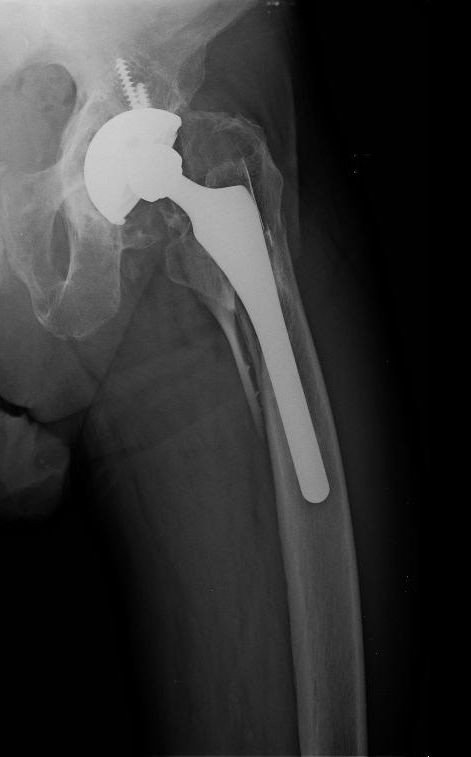 Periprosthetic fracture of left femur, before treatment